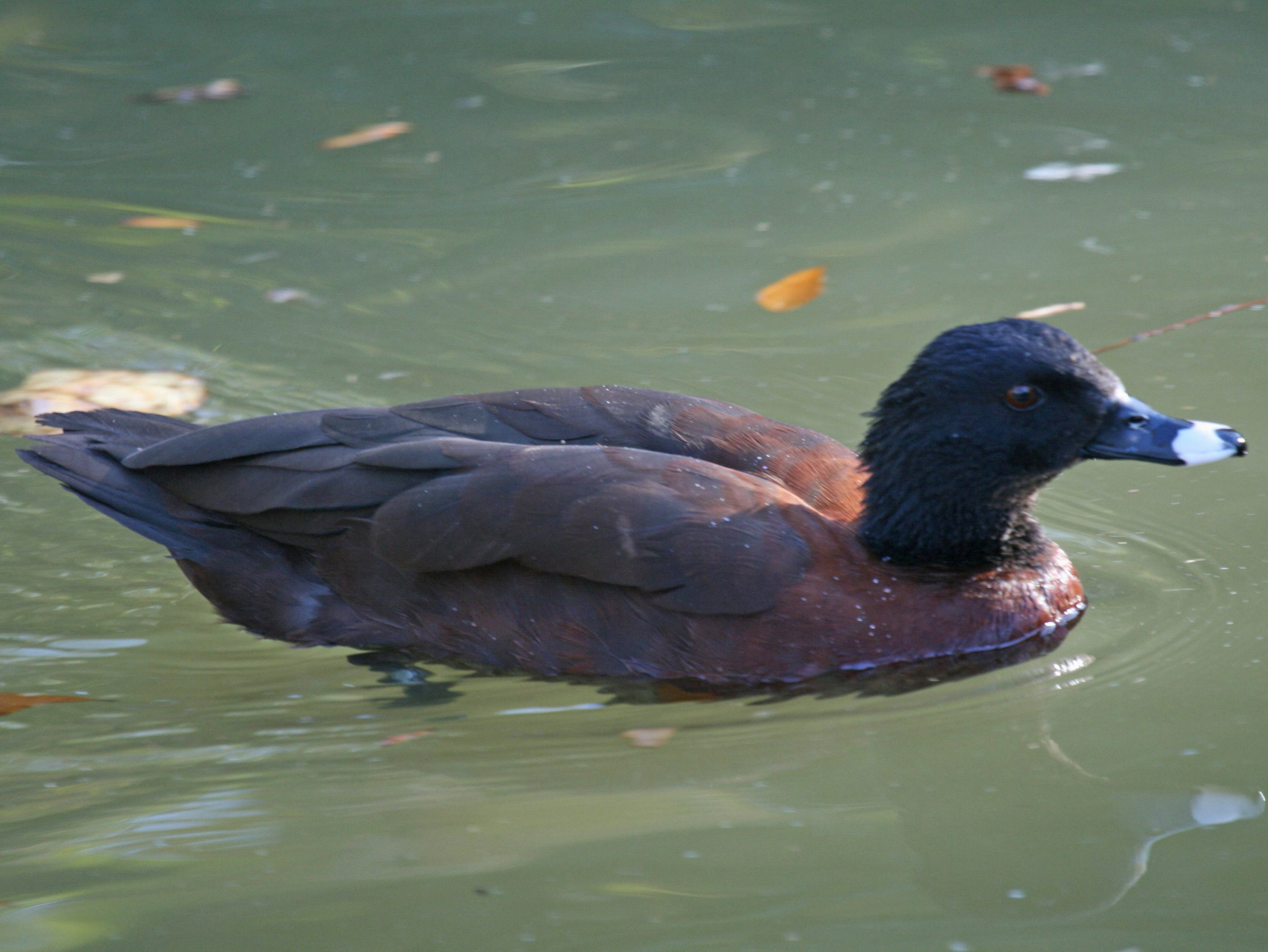 Hartlaub's Duck (Pteronetta hartlaubii) at Sylvan Heights Waterfowl Park in Scotland Neck, North Carolina.